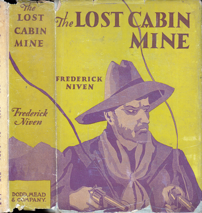 Cover of the Lost Cabin Mine by Frederick Niven